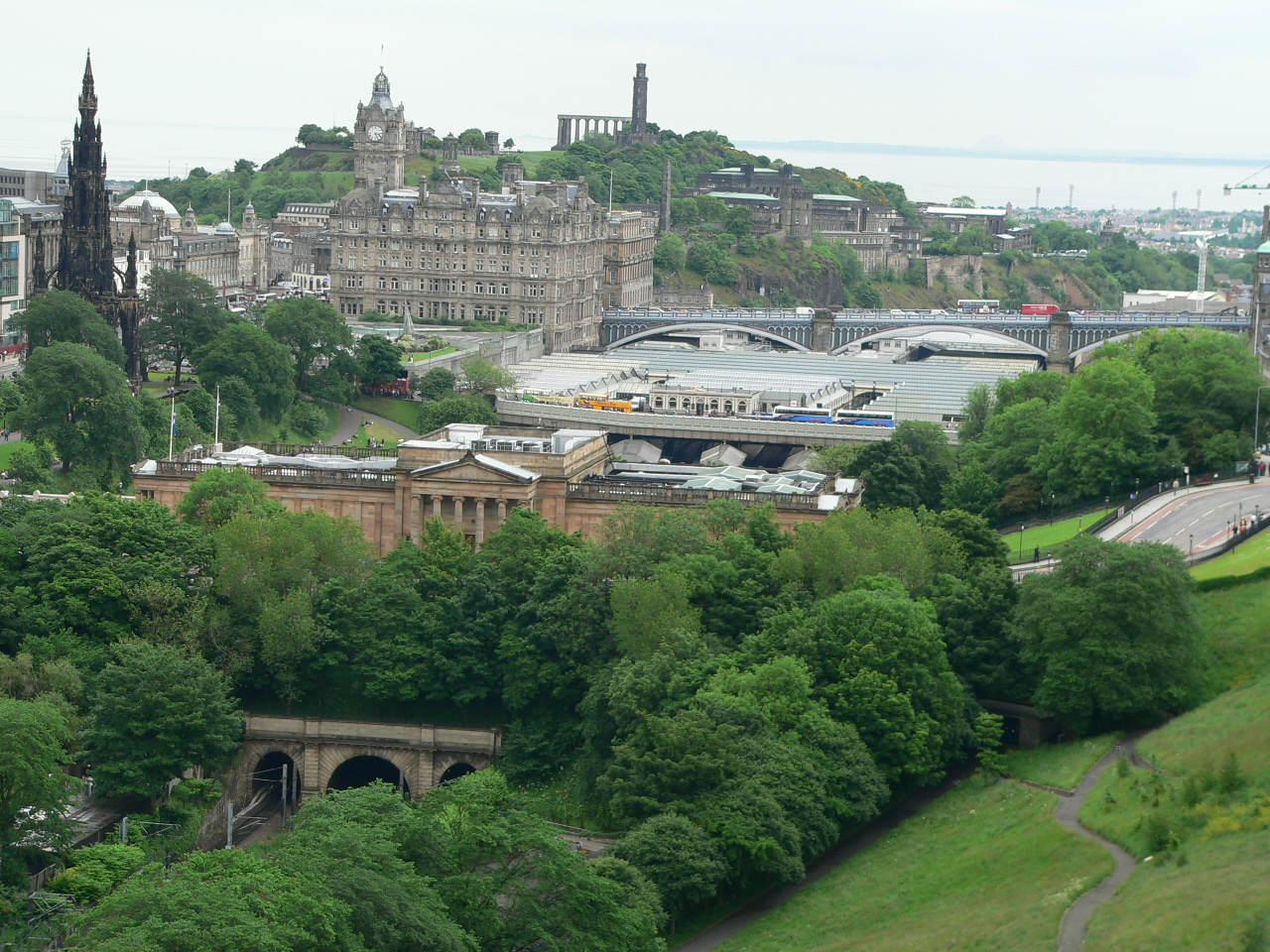 A general view of Edinburgh, including Waverley station and other landmarks from Edinburgh Castle.